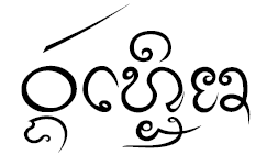 Lanna script – Wang Nuea is the northernmost district (amphoe) of Lampang Province, northern Thailand.